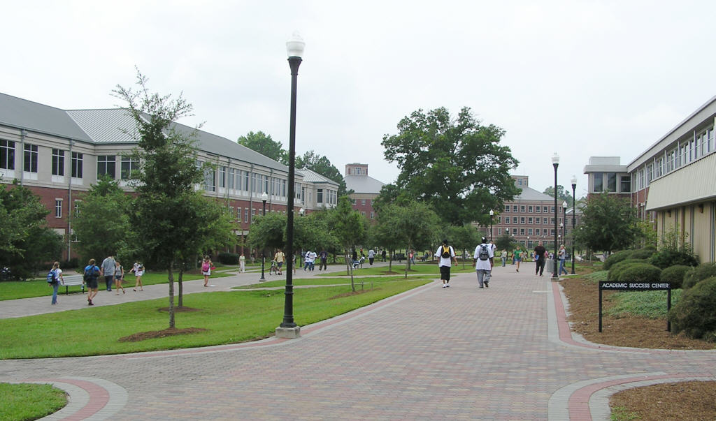 view of Georgia Southern campus on pedestrium looking towards Education and Nursing. Photo taken Richard Chambers, Aug-2004. The College of Business Administration building can be seen straight ahead. The pedestrium goes between the College of Business Administration and the College of Information Technology, which can be seen in the right, towards the College of Education and the College of Nursing. The College of Education building is to the right beyond the College of Information Technology. Other images in this series: A view of the small lake in the center of the Georgia Southern campus A view from Forrest Drive looking between the Education and Nursing buildings towards the College of IT A view across the pedestrium towards the lake.